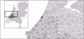 Location of Dutch former municipality Katwijk in 2005 (municipality Katwijk still exists after 2005, but with a larger area due to a merger). Made by me (Mtcv), PD.